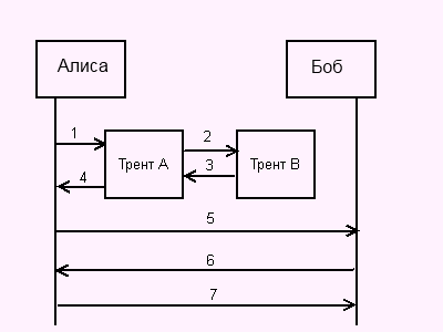 The case of different authentication servers